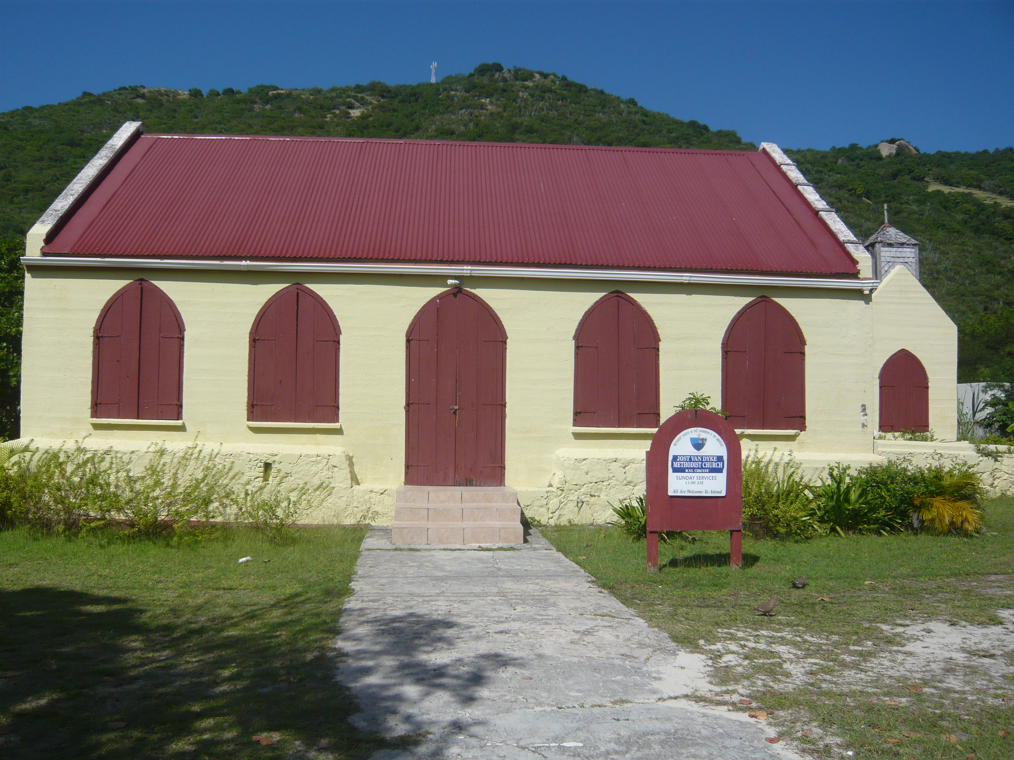 Methodist Church, Great Harbour, Jost Van Dyke, BVI, Jan 2010.